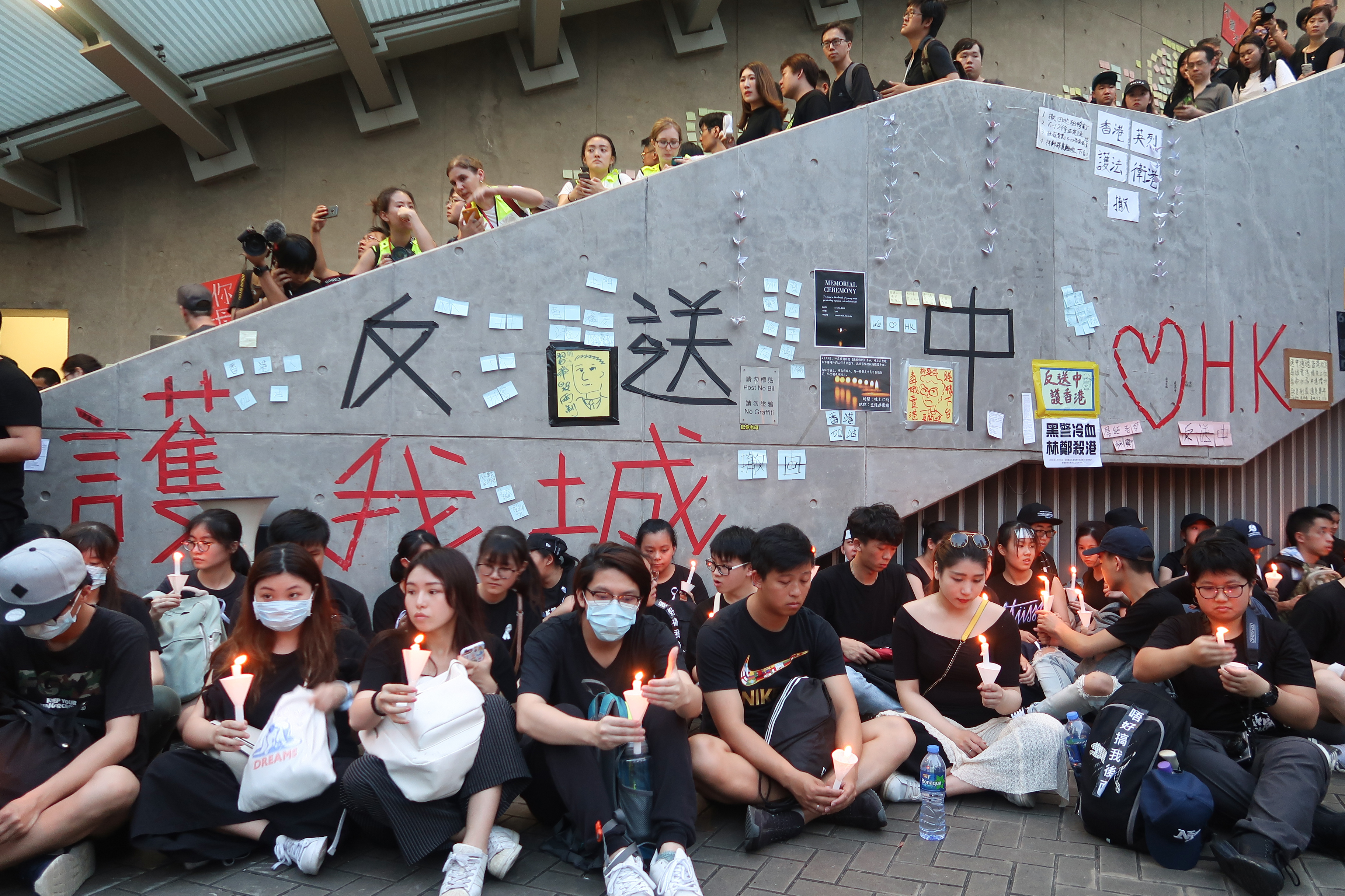 Memorial for the suicided protester near CGO